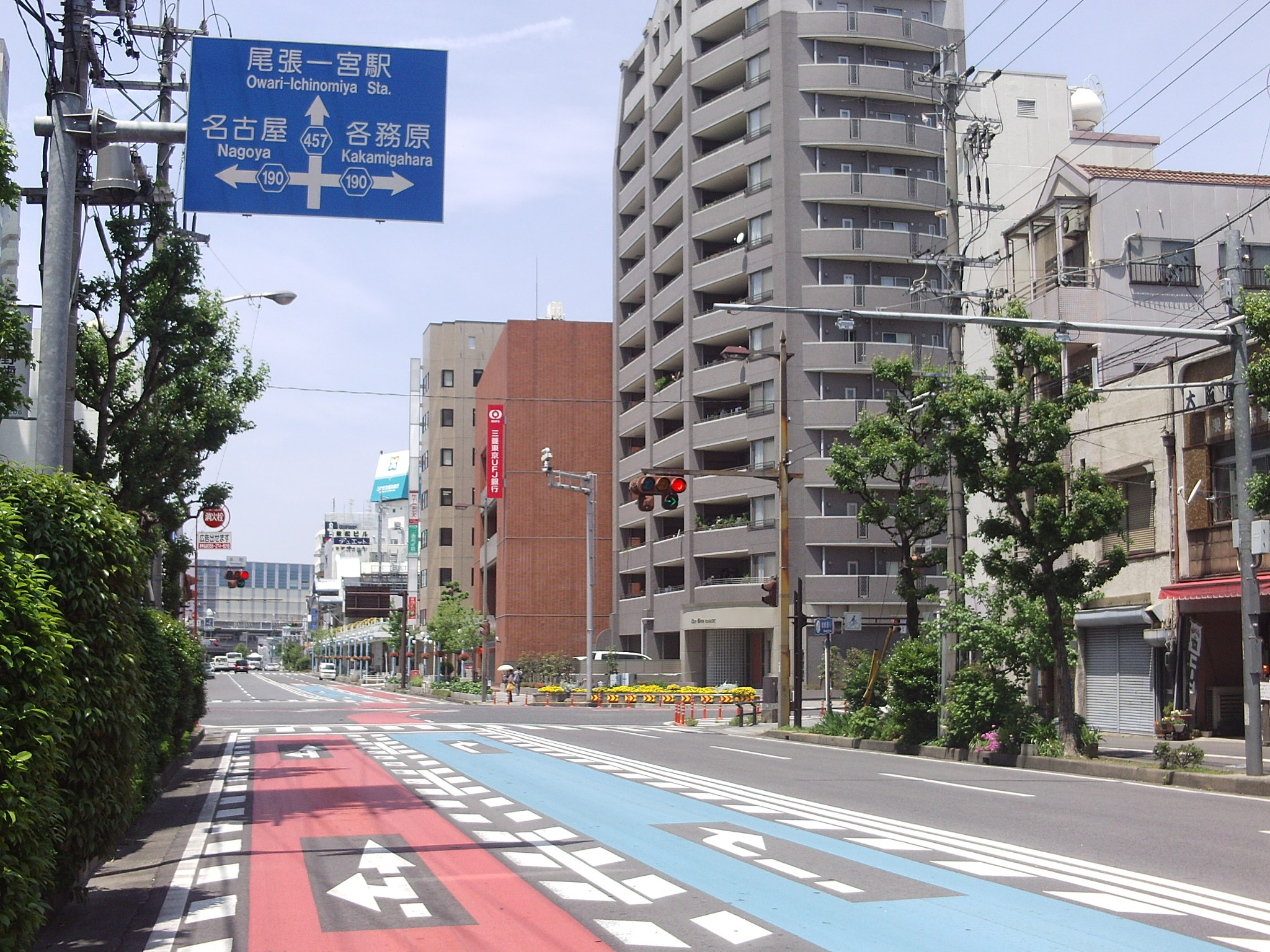 Aichi prefectural road No.457 in Ichinomiya, Aichi.